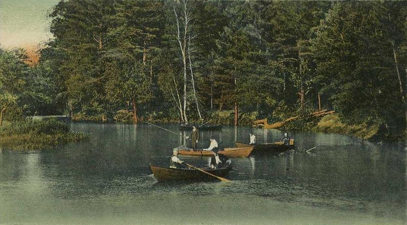 Cochecho River at Rochester, New Hampshire.